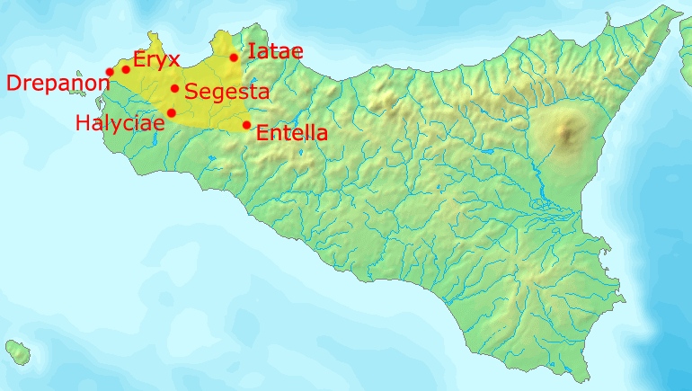 Map of Sicily showing main population centres and approximate area formerly controlled by the Elymians